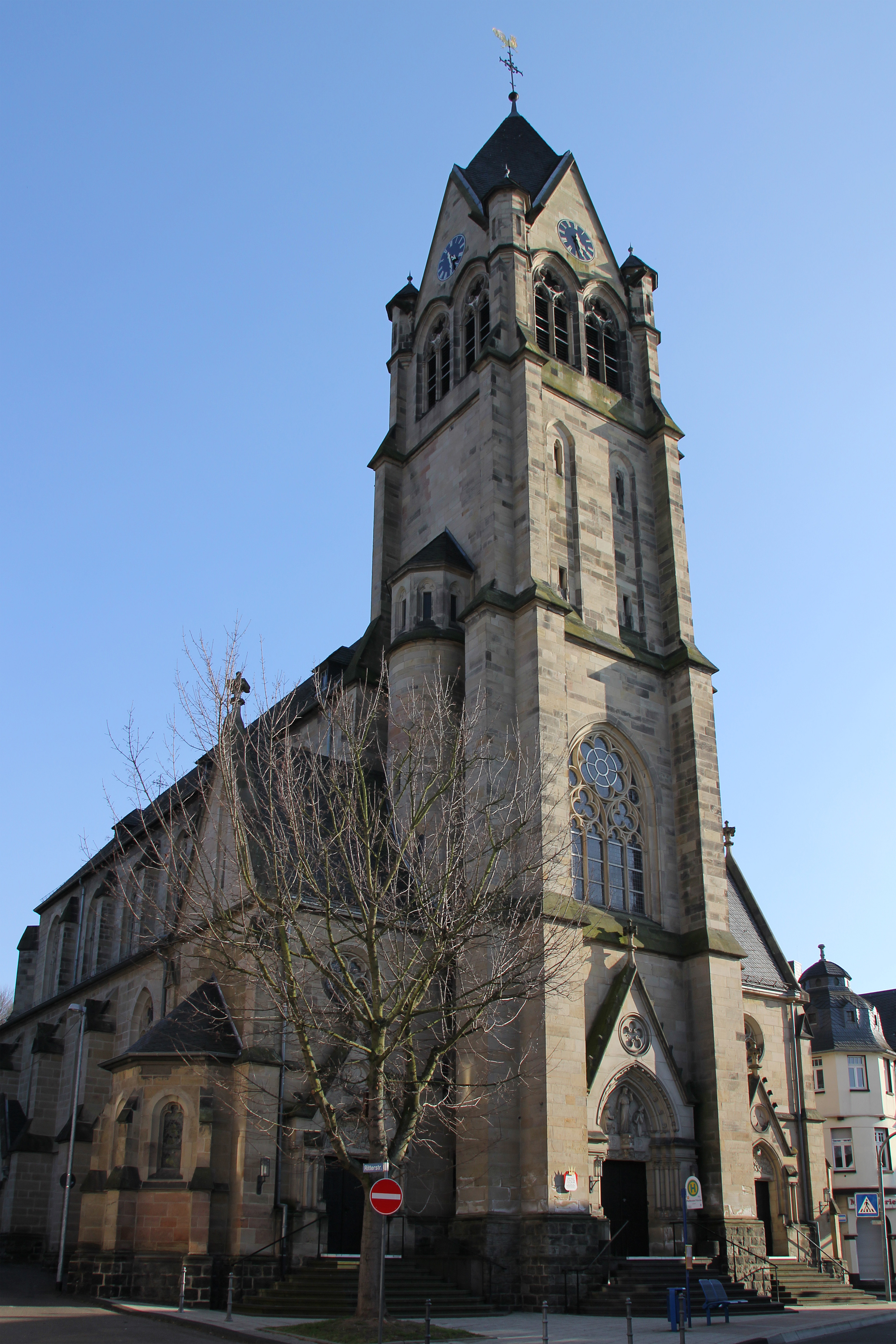 St. Peter and Paul church in Koblenz